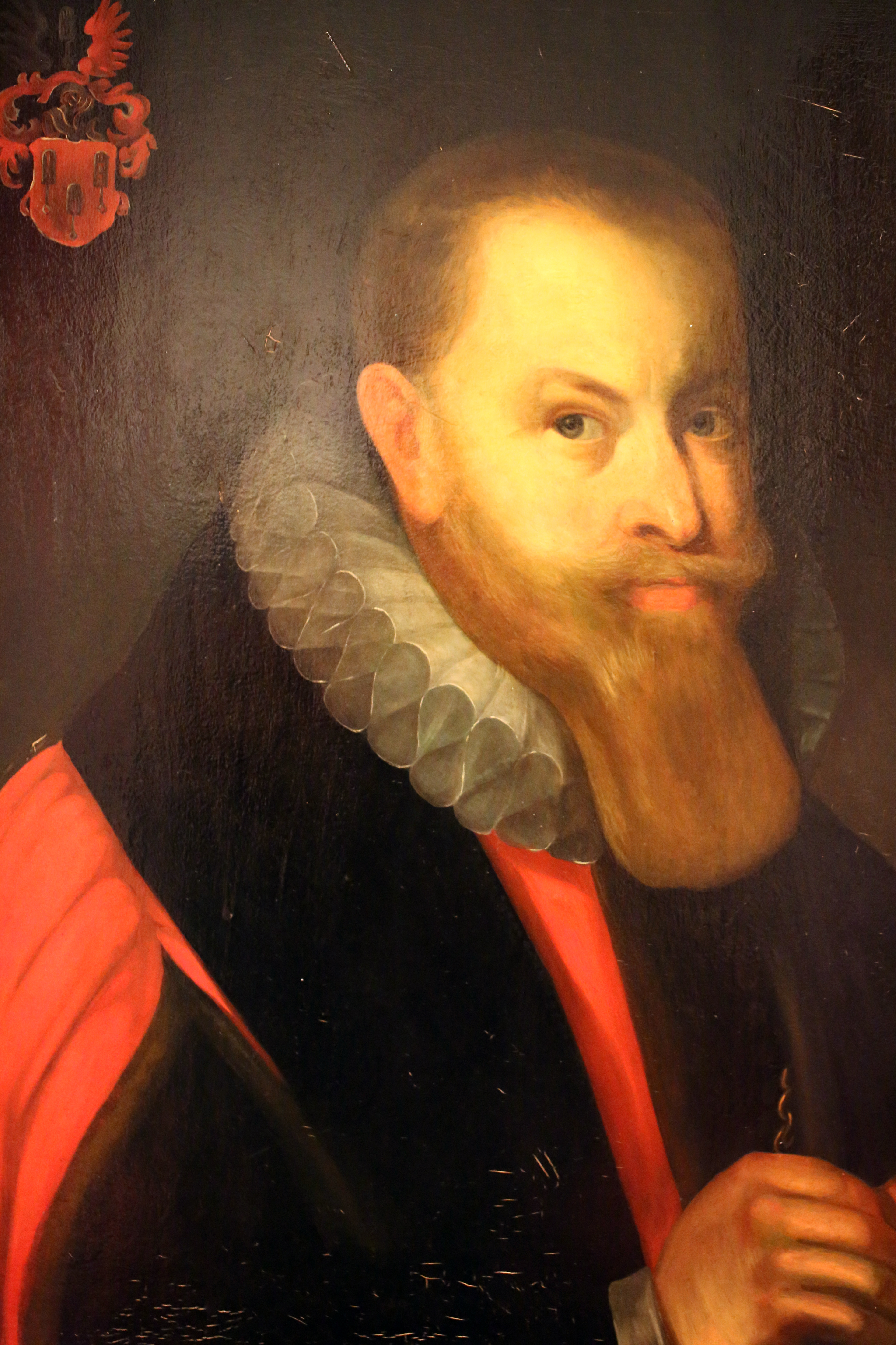 Oil painting of Johann Bolandt, former mayor of Cologne. Exhibition Kölnisches Stadtmuseum in Cologne